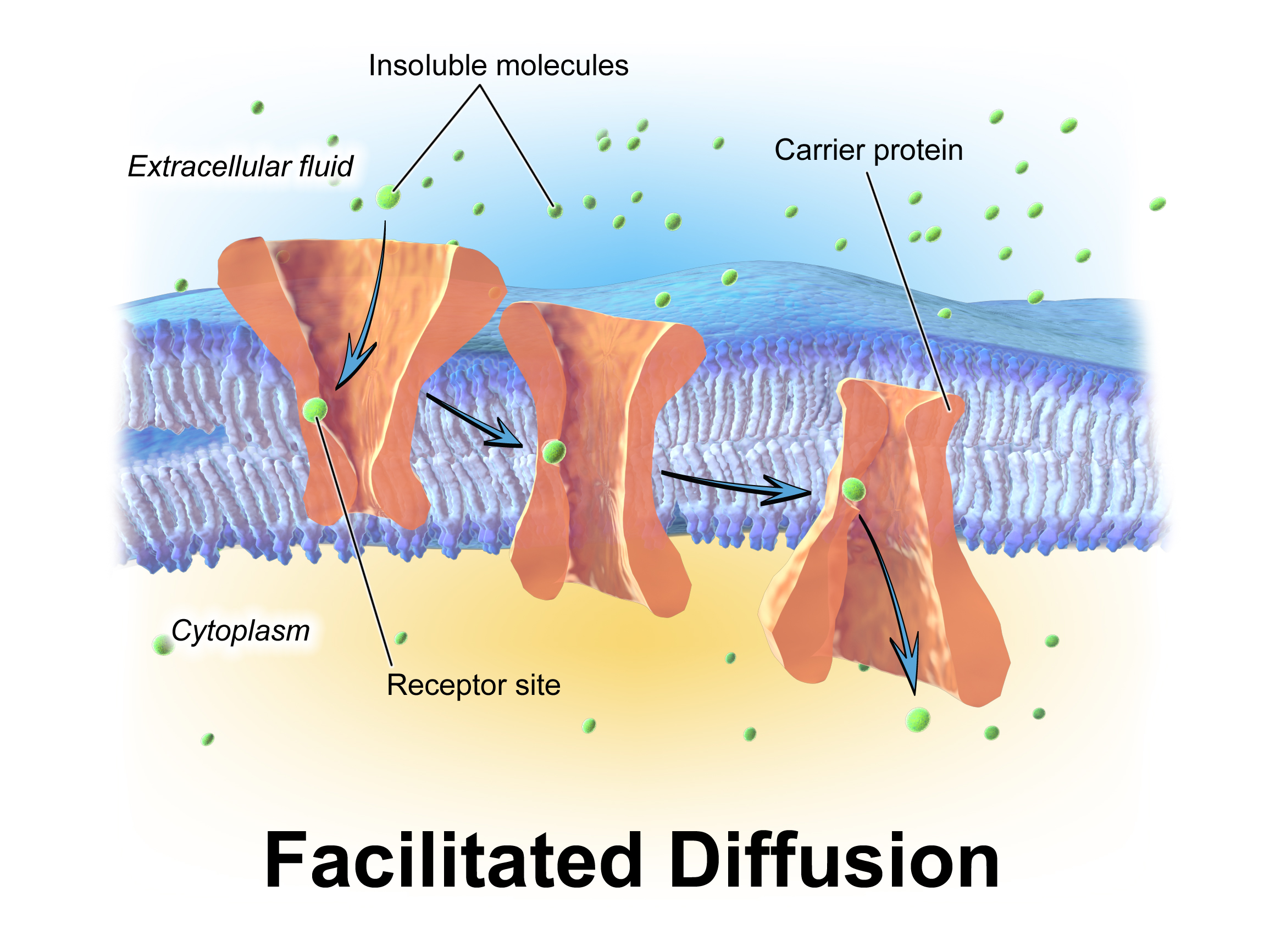 Facilitated Diffusion. See a full animation of this medical topic.